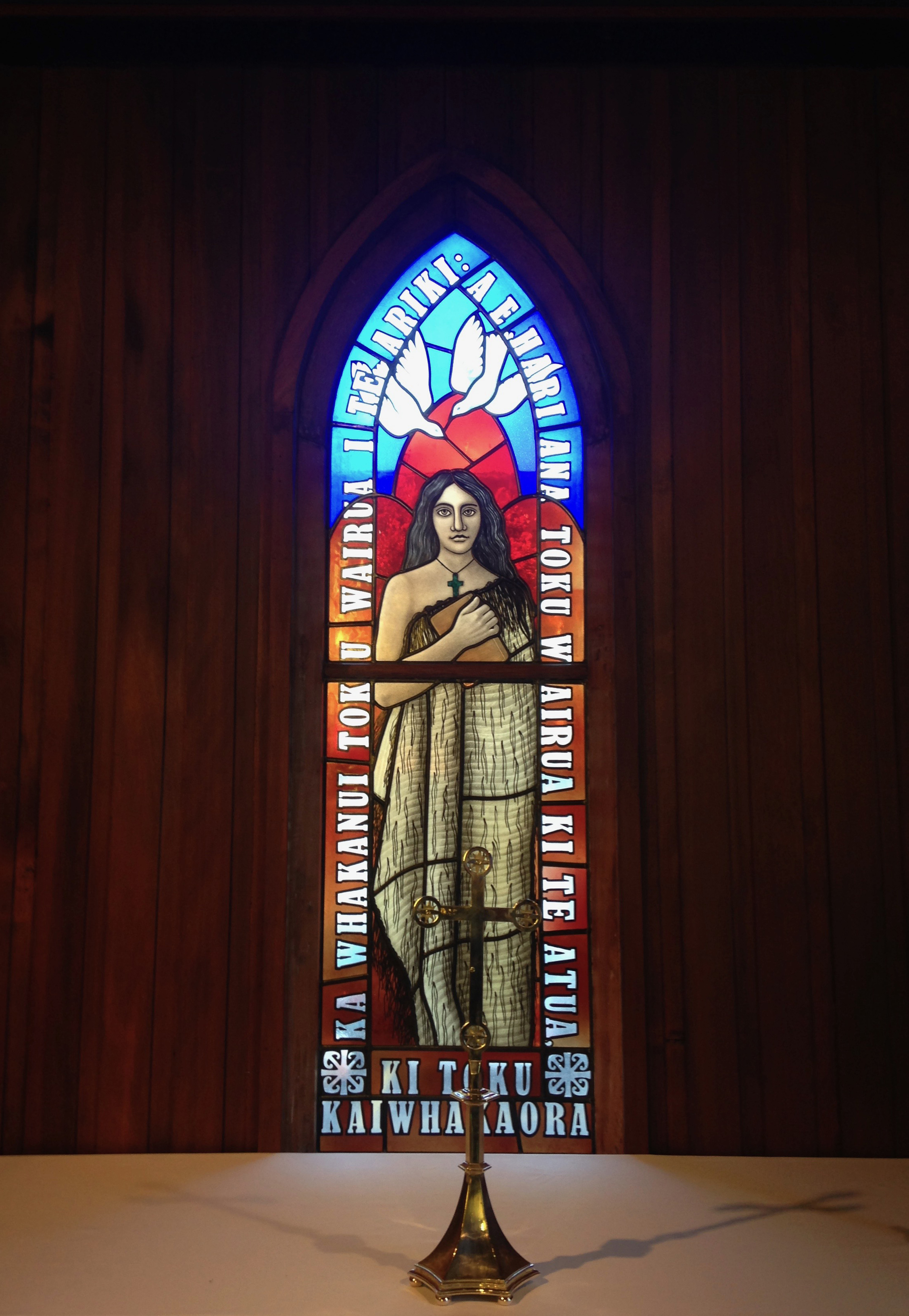 By Suzanne Hanly of The Glassworks in Mt Eden, Auckland, commissioned in 2004. Depicts a wahine draped in a korowai with greenstone cross necklace holding Te Paipera Tapu, framed by Luke 1:46-47, The Magnificat, “Ka whakanui toku wairua i te Ariki: A e hari ana toku wairua ki te Atua ki toku Kai whakaora”. At her feet is the crest of Te Pīhopatanga o Te Tai Tokerau depicting the hammerhead shark, renowned for its strength, leadership, determination and courage. The doves hovering above embody purity and peace. The image honours the important contributions that all women make to the church and community.